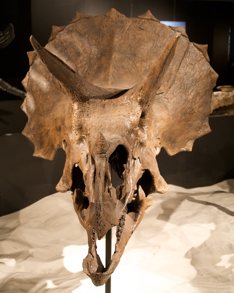 From the "Dinosaur Mummy: CSI" exhibit, and featured in a humorous posting on my blog.